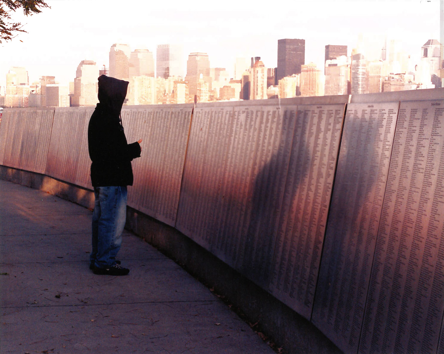 George is looking for his great-grandmother's name, who immigrated to the U.S.A in 1921 from Turkish Armenia. This was a fund-raiser implemented by Lee Iaccoca, whose parents were immigrants from Italy, to repair the Statute of Liberty. People paid to have their immigrant relative's name placed on the wall. I did this for my mother as a Mother's Day gift, since it was her mother that arrived on this island.